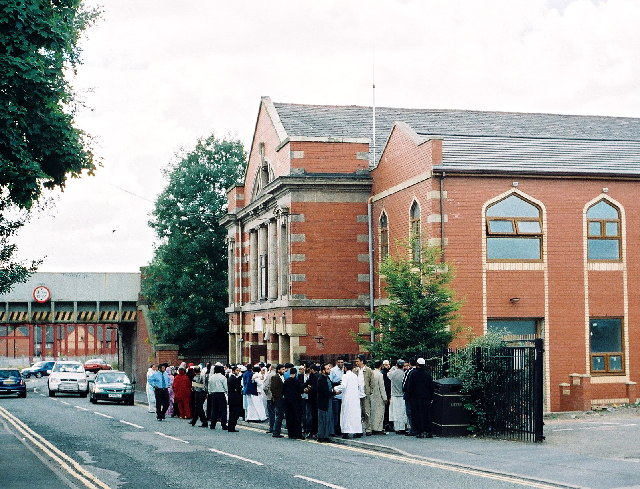 Islamic Centre, Little Harwood, Blackburn. Former cinema, now Masjid-E-Sajedeen mosque and islamic centre.